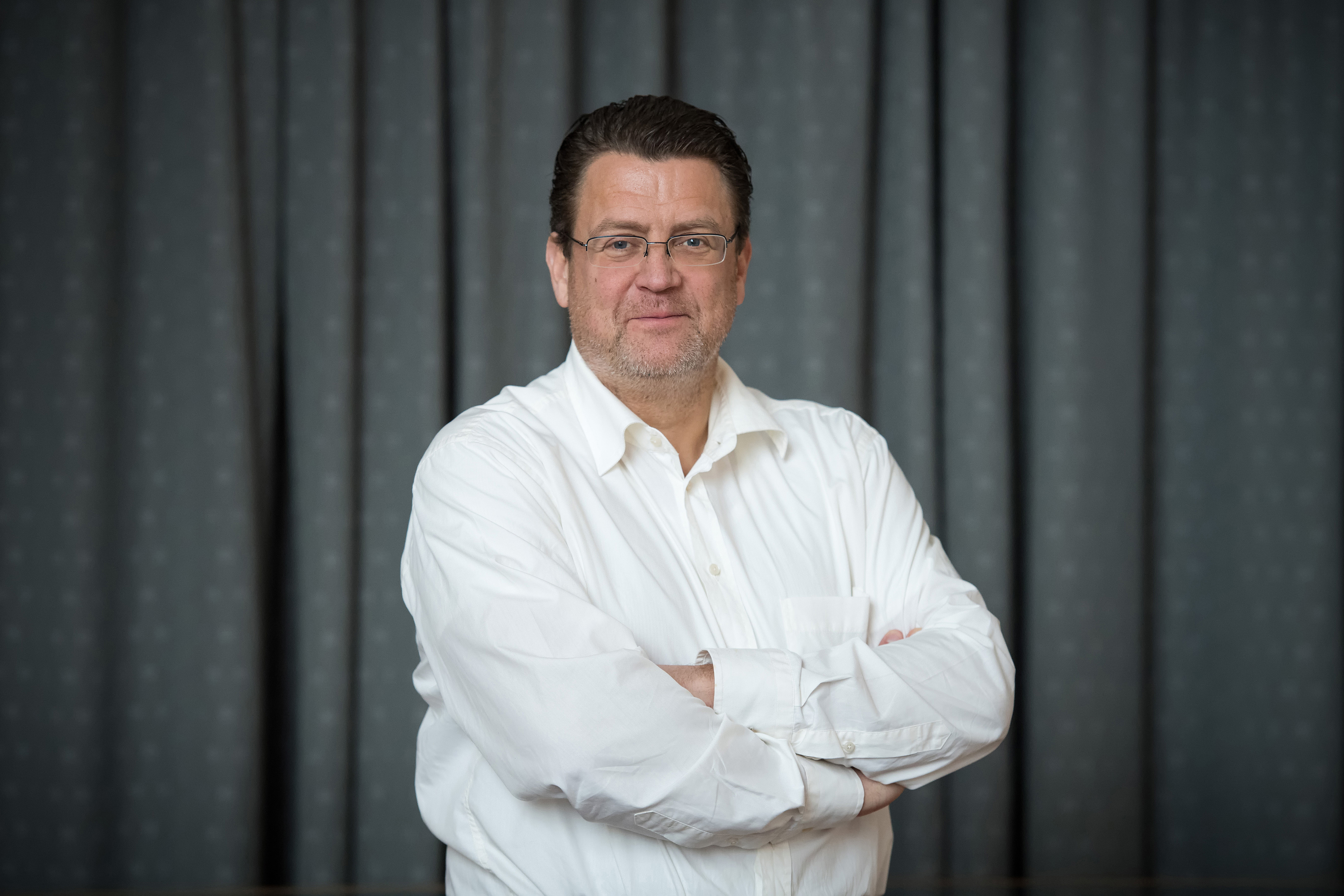 Stephan Brandner